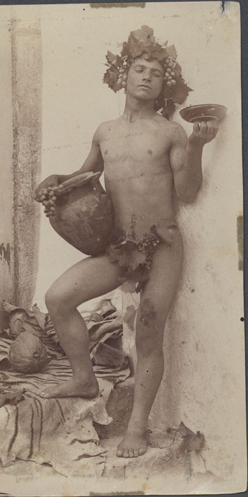 Wilhelm von Gloeden (1856-1931). "Bacchus". Catalogue number: 807.